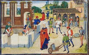 Bertha, the daughter of Lothair I (800-855) and Ermengarde of Tours (800-851) and wife of Girart de Roussillon, is giving orders during the construction of the Madeleine at Vézelay in the 9th century, an illuminated manuscript.